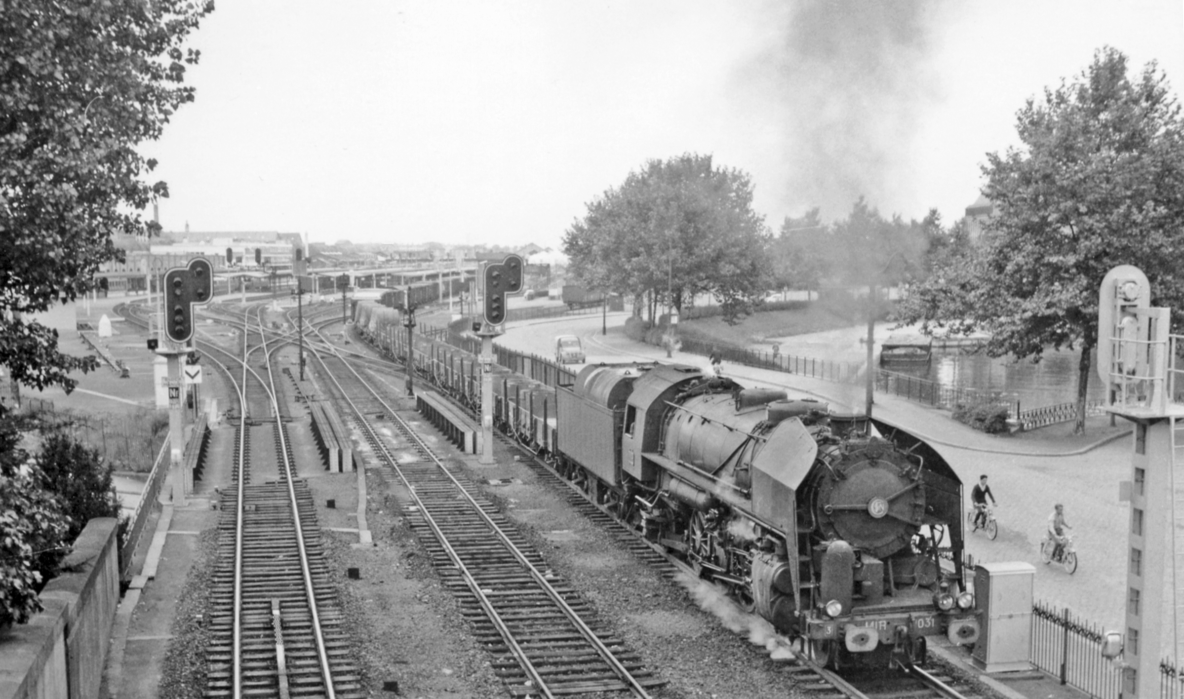 Westbound freight, hauled by an American-built class 141-R 2-8-2, at Nantes (Loire Atlantique), 1963.